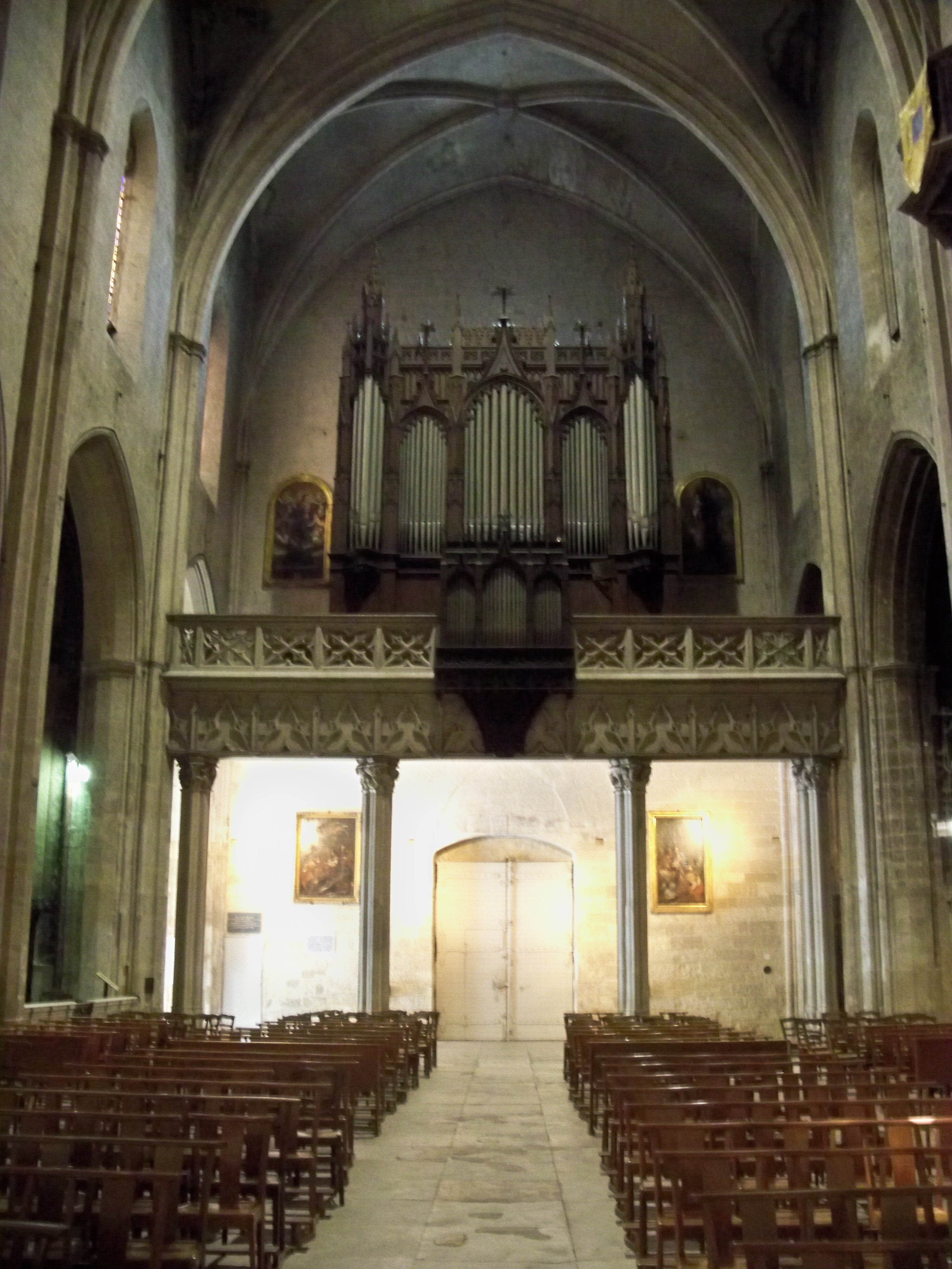 Organ of the Saint-Didier collegiate church in Avignon. Built in 1891 by the organ builder François Mader from Marseille, reusing and enlarging the case of the pre-existing organ of Menstati from 1844; modified by Maurice Puget in 1953; mechanism revised by Jean Deloye in 2006.